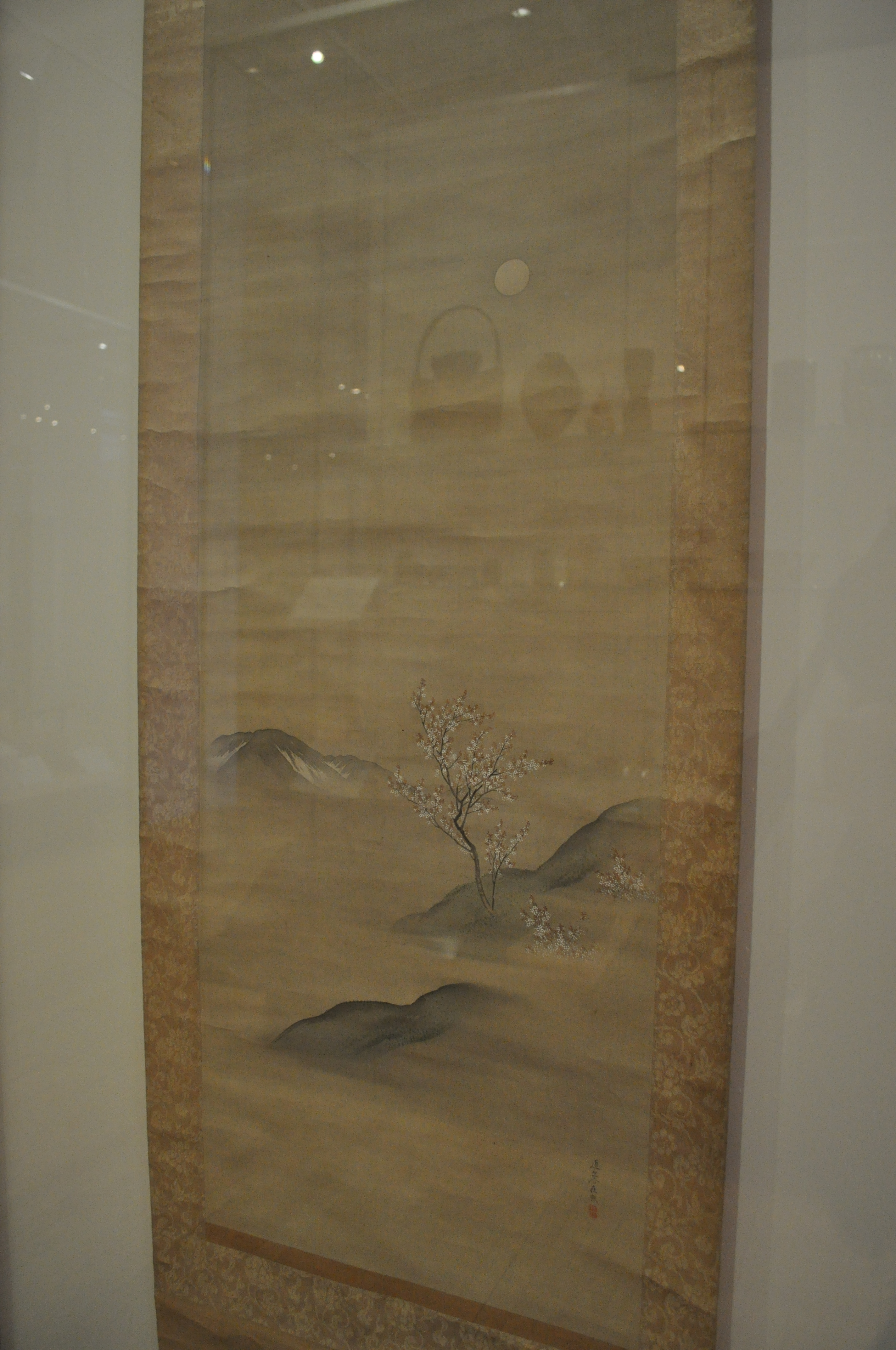 hara Zaisho's kakejiku detail